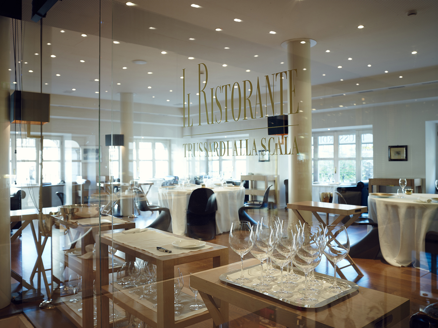 Ristorante Trussardi alla Scala